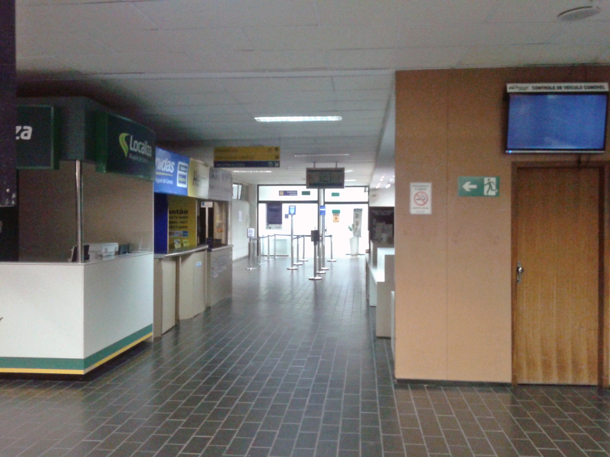 Interior of the Ipatinga Airport (Vale do Aço Regional Airport), in Santana do Paraíso, Minas Gerais, Brazil.